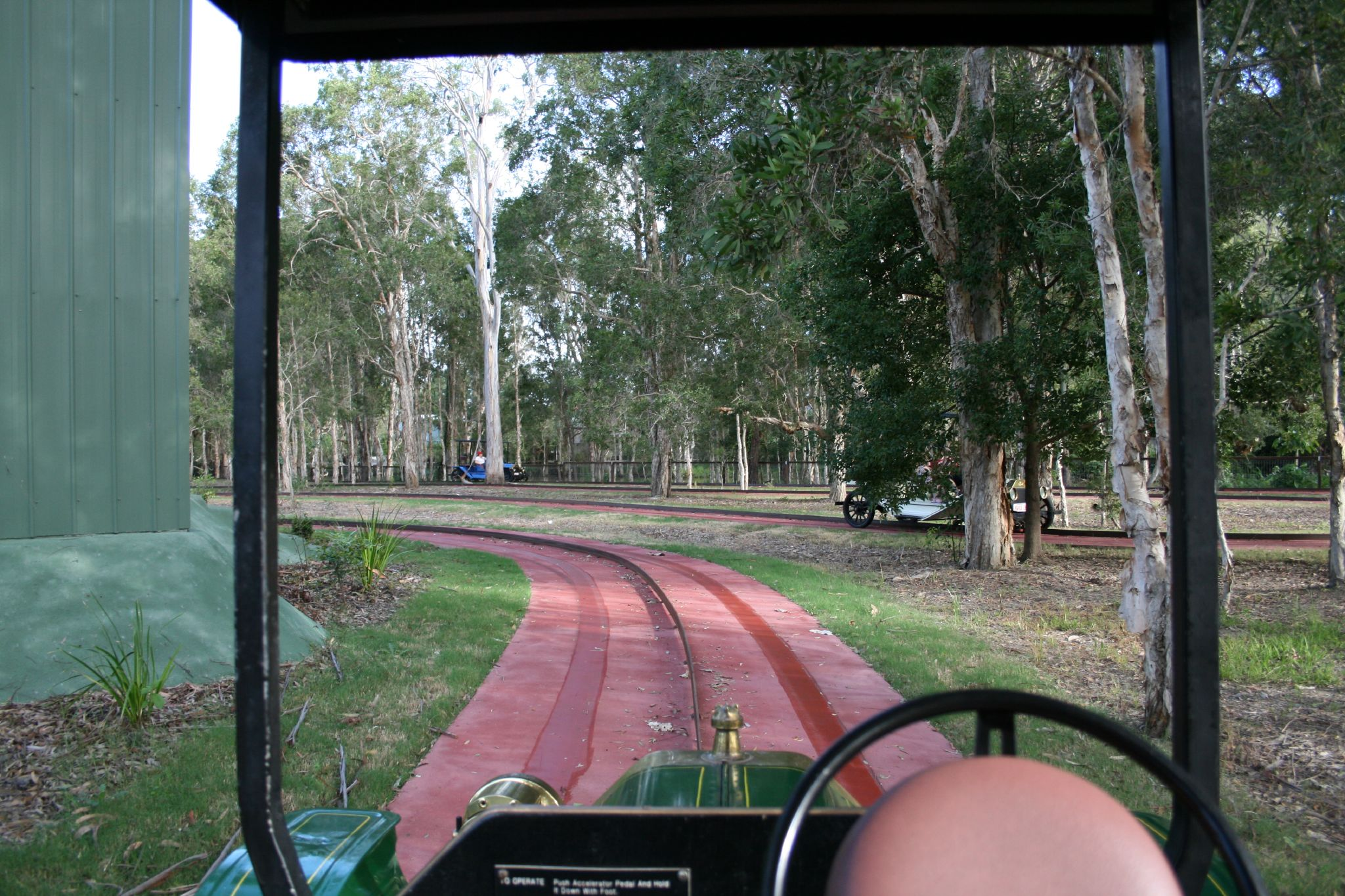 Avis Vintage Cars in their current location in the Australian Wildlife Experience section of Dreamworld.